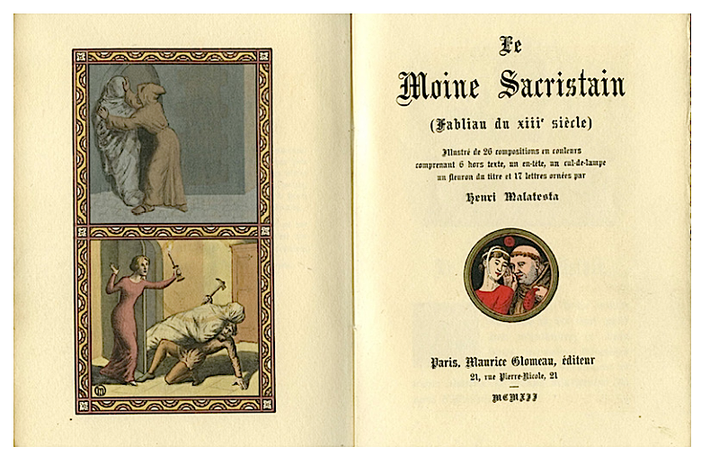 Le Moine sacristain (Fabliau du XIIIe siècle), frontispice and title page, published in Paris: Maurice Glomeau, éditeur.